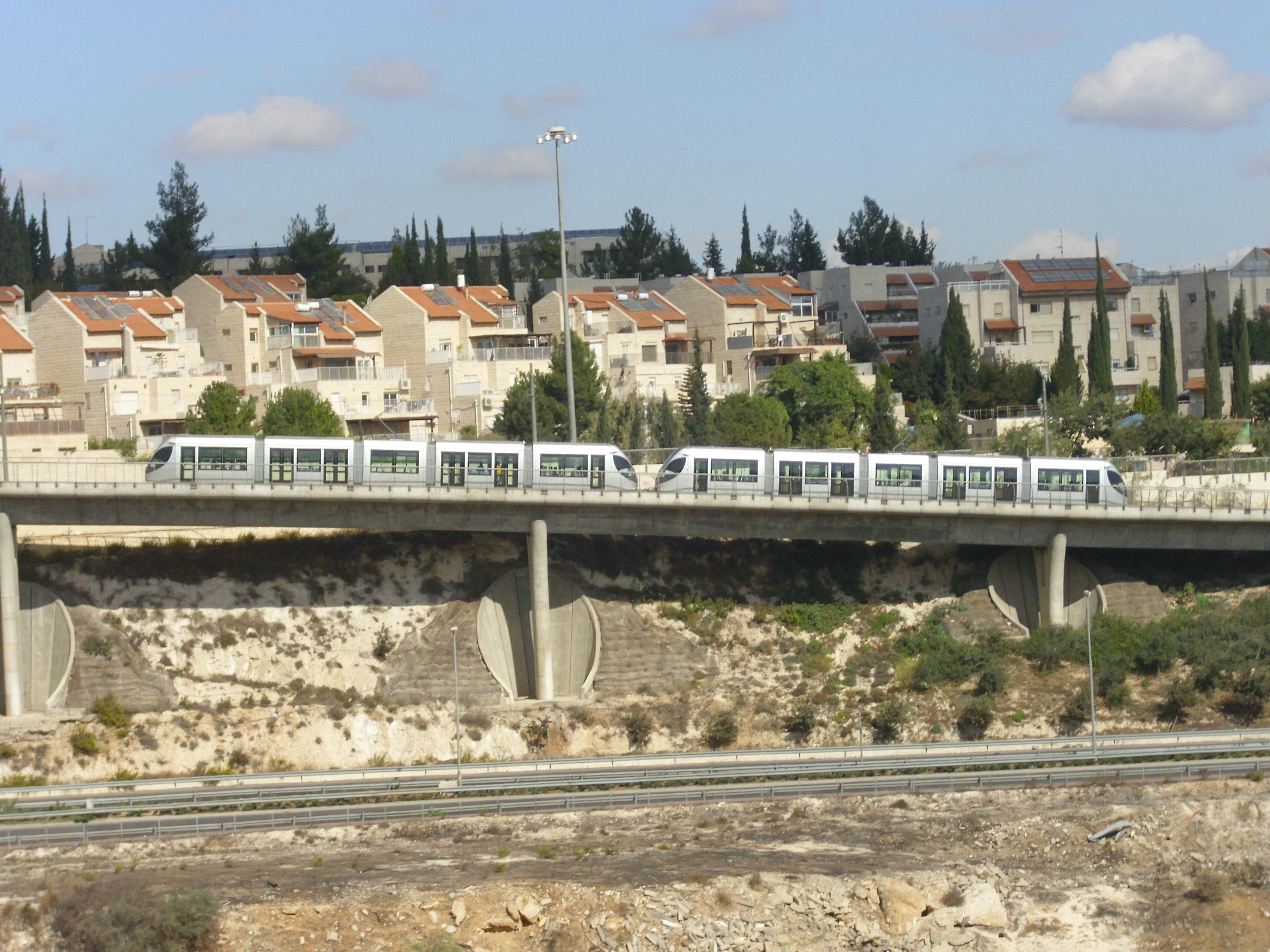 New Adam Bridge, Pisgat Ze'ev